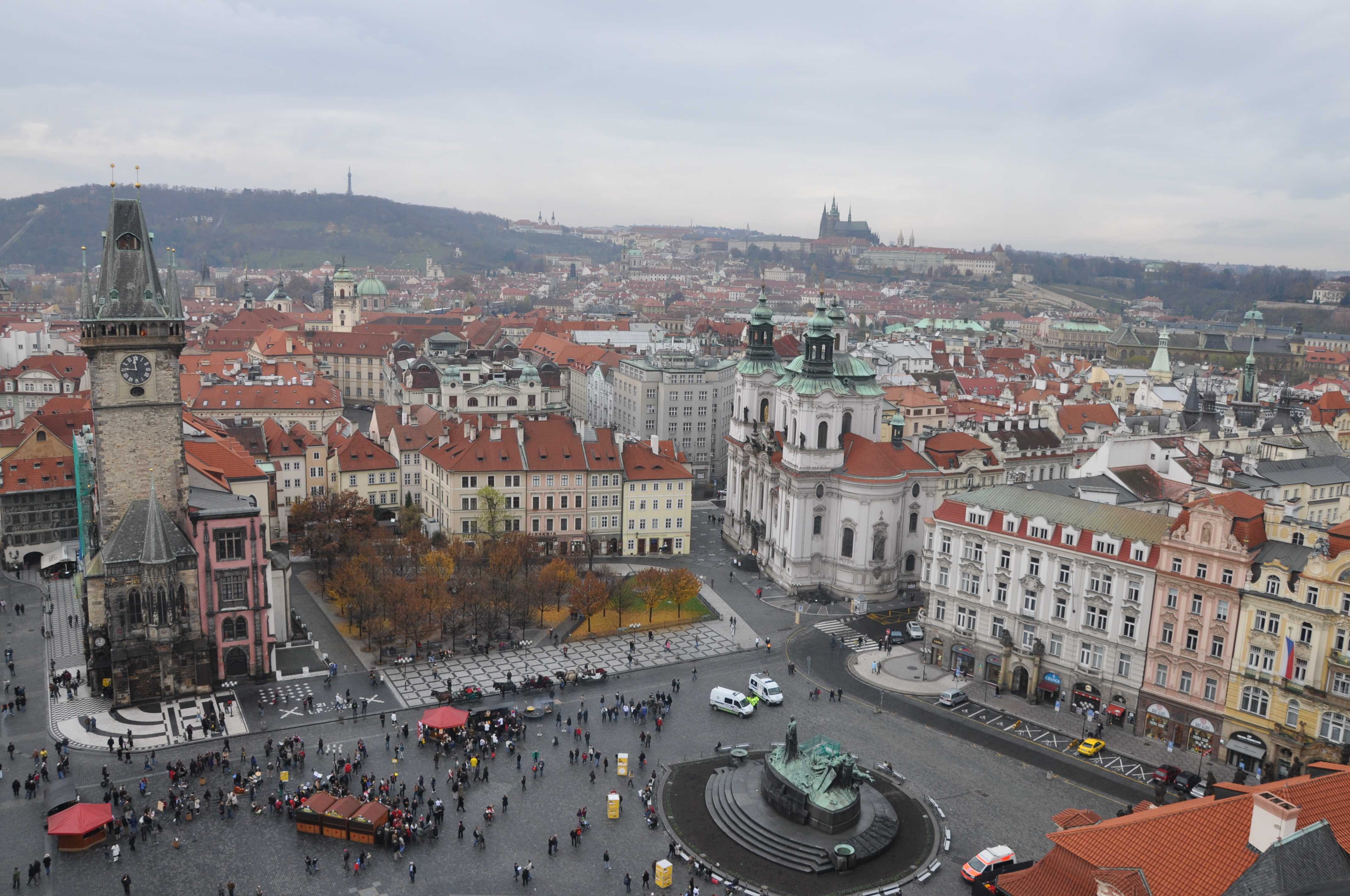 Views of Prague from Church of Our Lady before Týn tower.